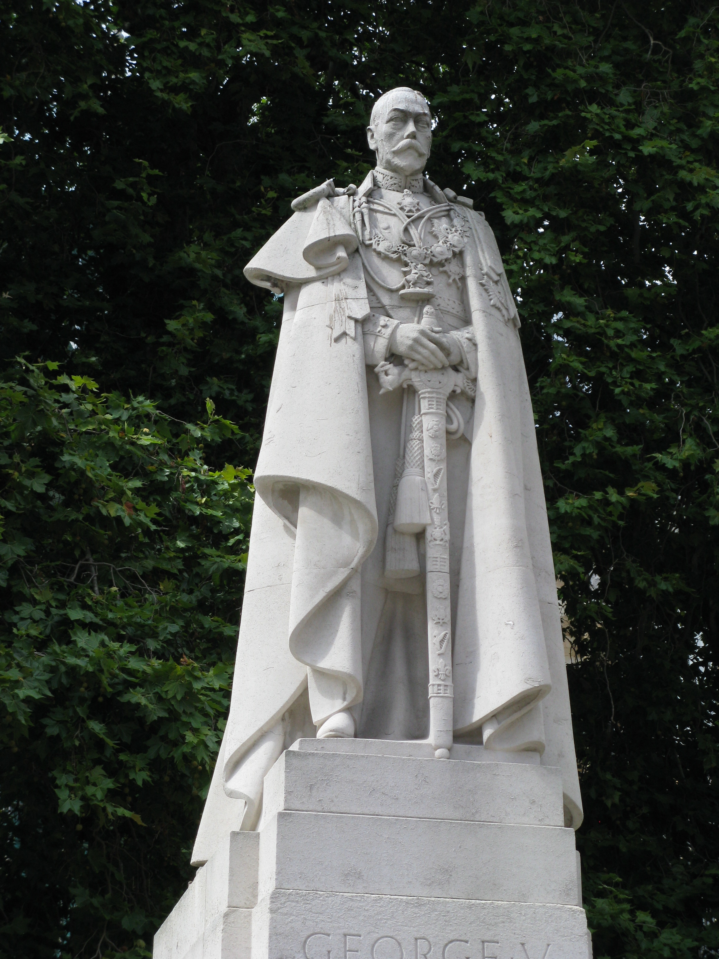 Statue of king George V by William Reid Dick at Westminster, London.